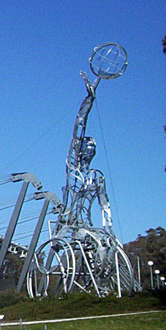 Front of the Australian Institute of Sport in Canberra. With the statues "The Acrobats" by John Robinson in the centre and "The Paralympic Basketballer" (1998) by Dominique Sutton to the right.